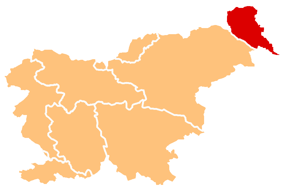 One of the maps of Slovene traditional regions